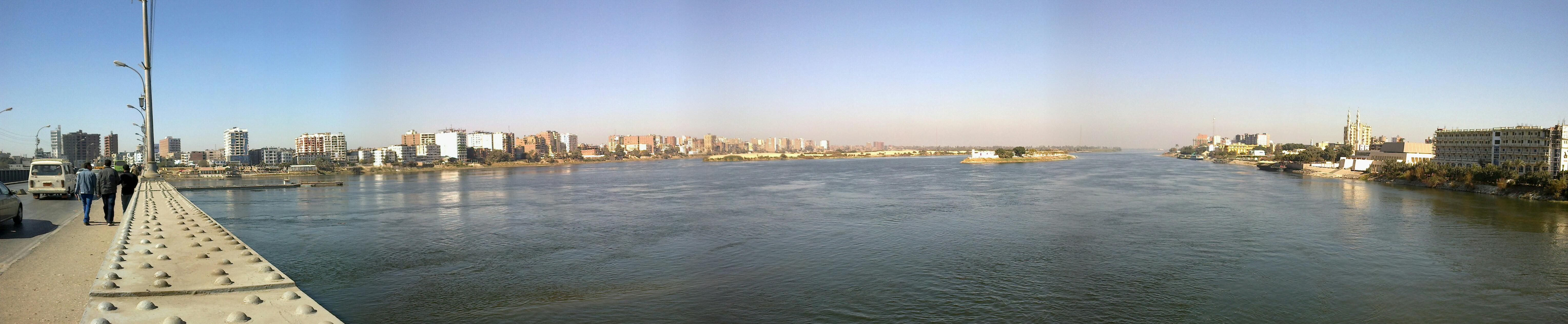 Nile panoramic view , Sohag , Egypt